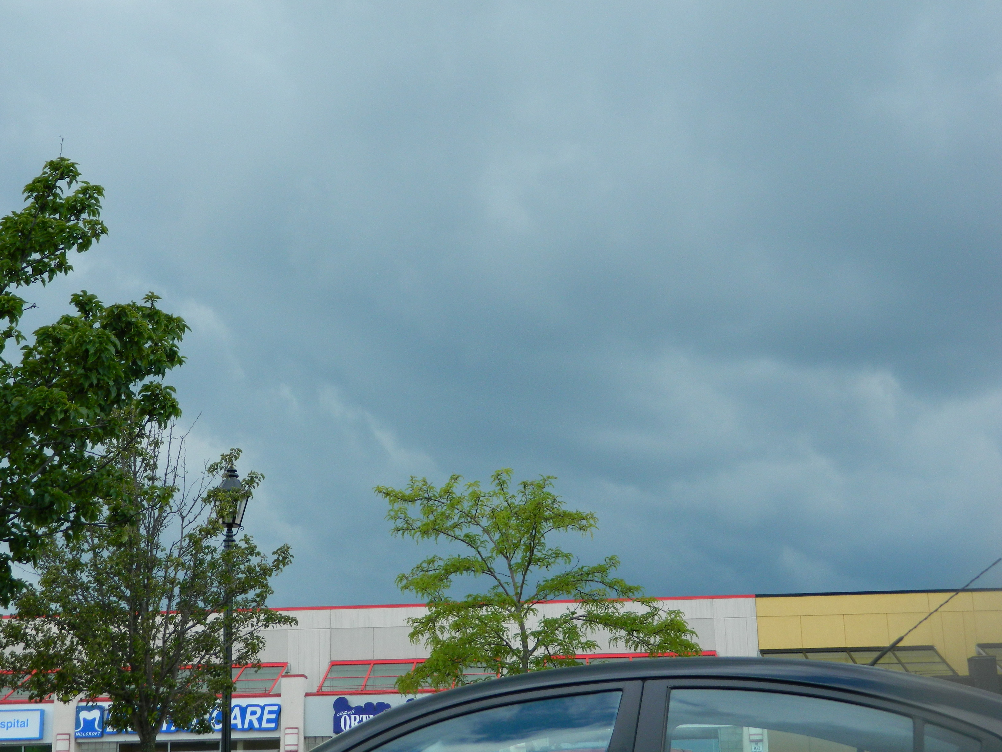 A cumulonimbus cloud over Niagara Falls, Ontario.